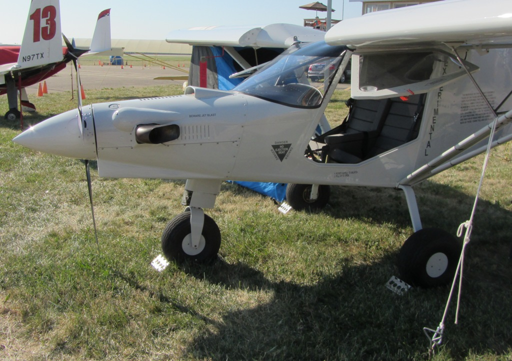 CH701 Turboprop